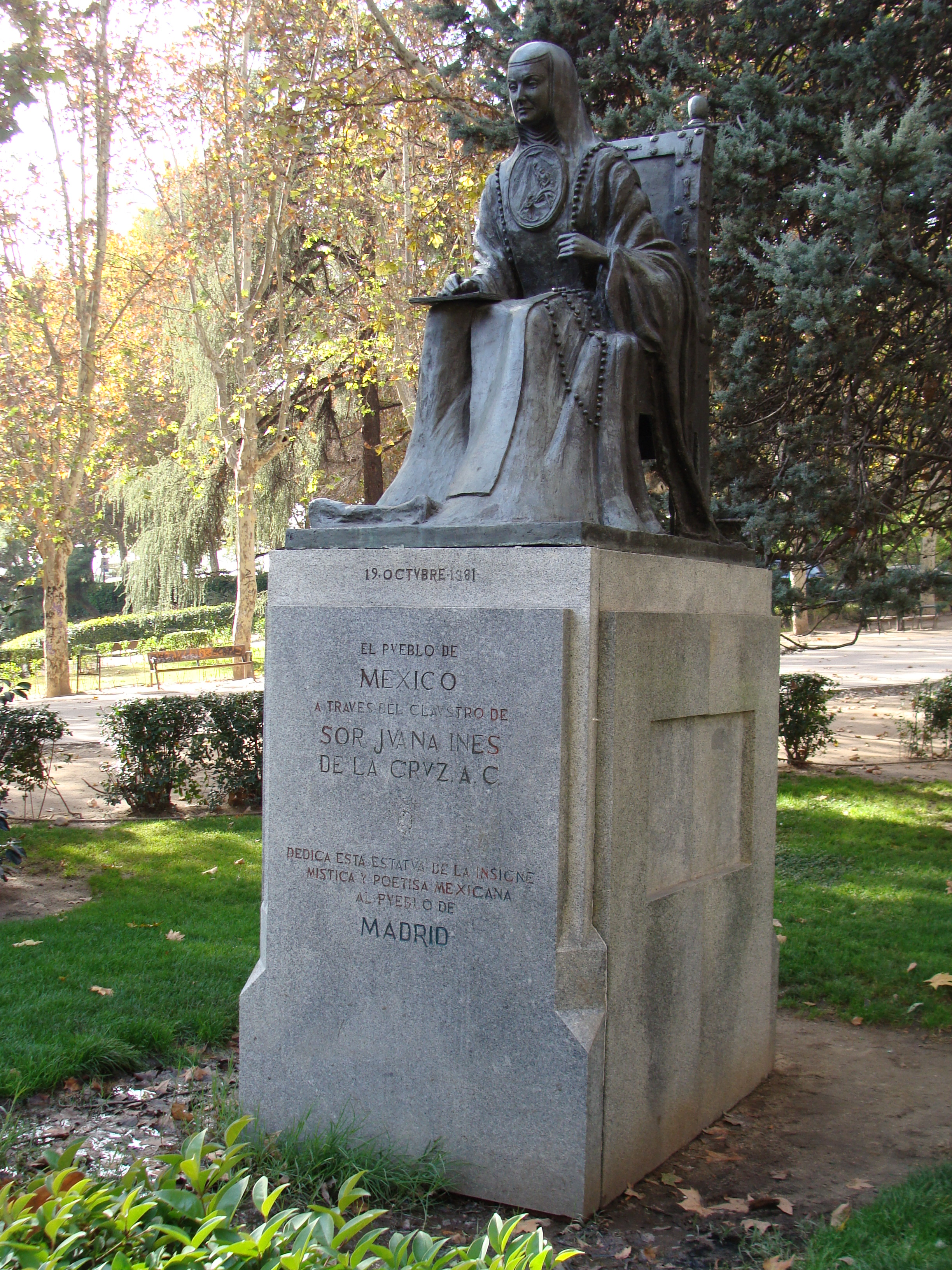 Statue of Sor Juana Inés de la Cruz, in Madrid, Spain